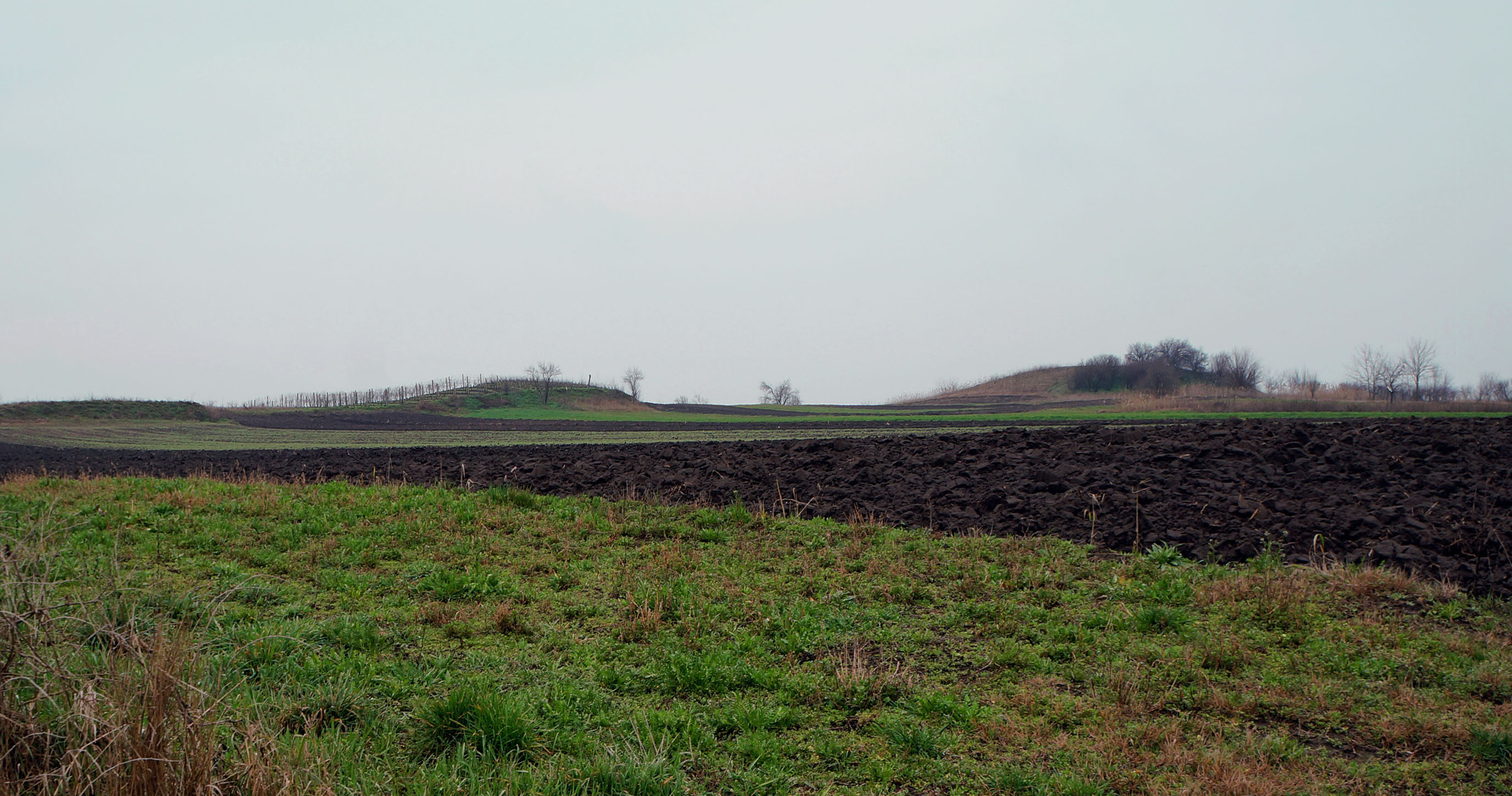 Getting closer to two kurgans nearby Banat village Iđoš, in Serbia